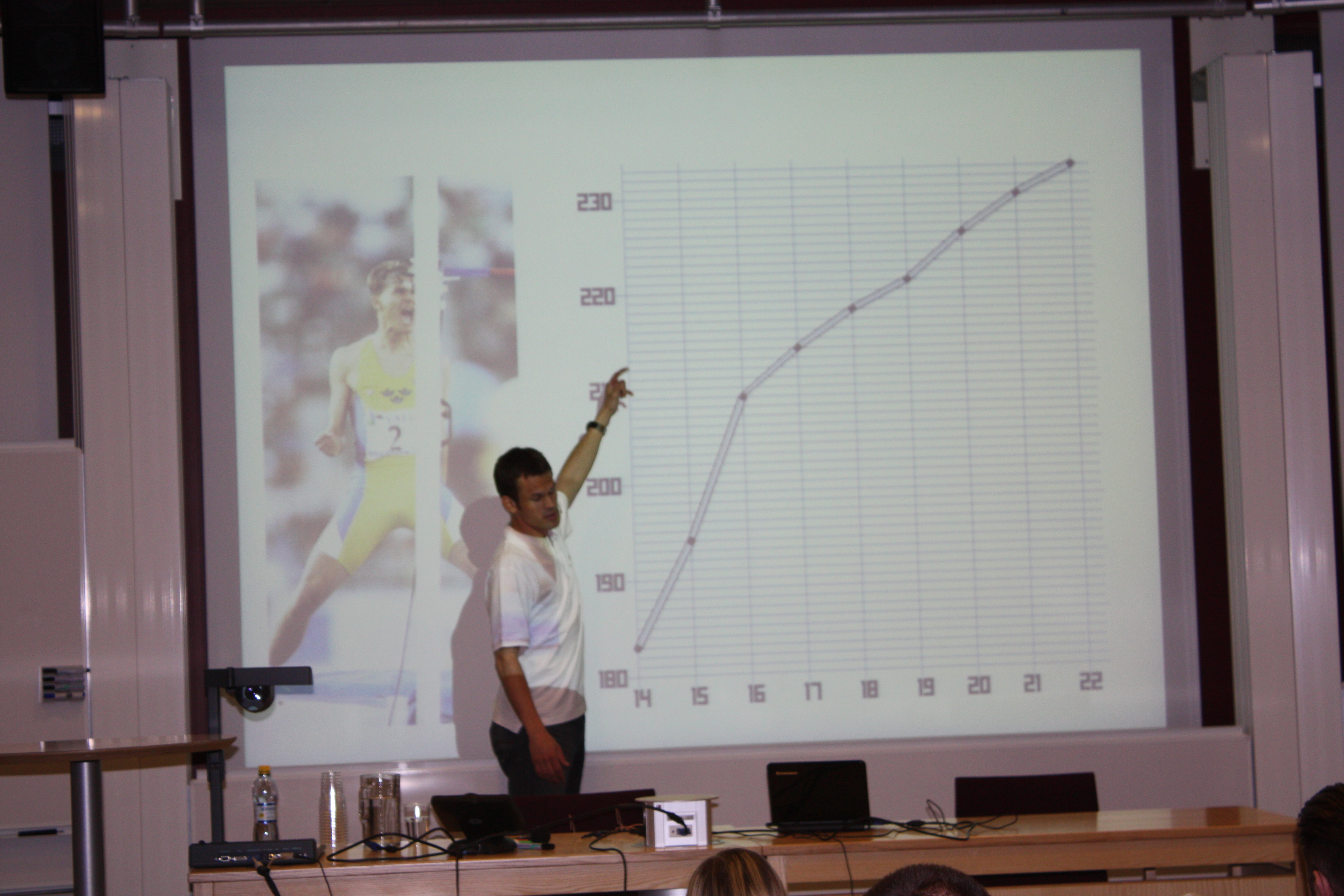 Stefan Holm in Karlstad May 2010